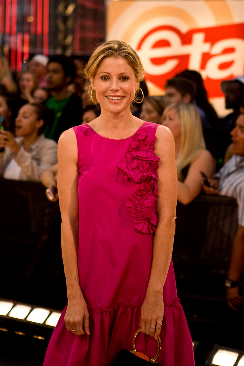 Julie Bowen at the eTalk Festival Party, during the Toronto International Film Festival. depicted person: Julie Bowen (age: 38.51)